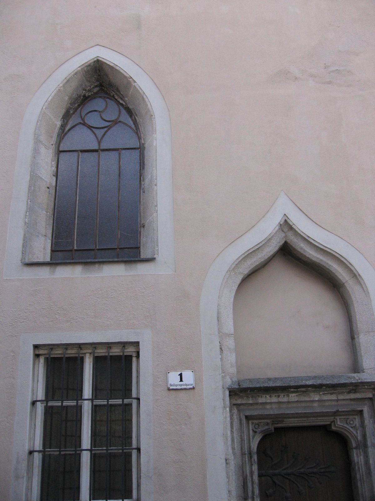 Former Church in Heiligen-Geist-Gasse, Freistadt